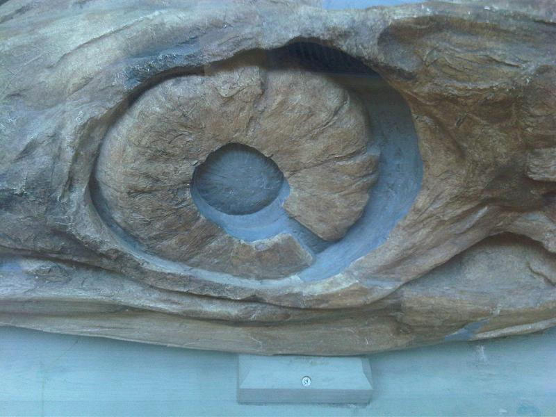 The eye of the Temnodontosaurus platyodon reconstruction at the Natural History Museum in London, England.